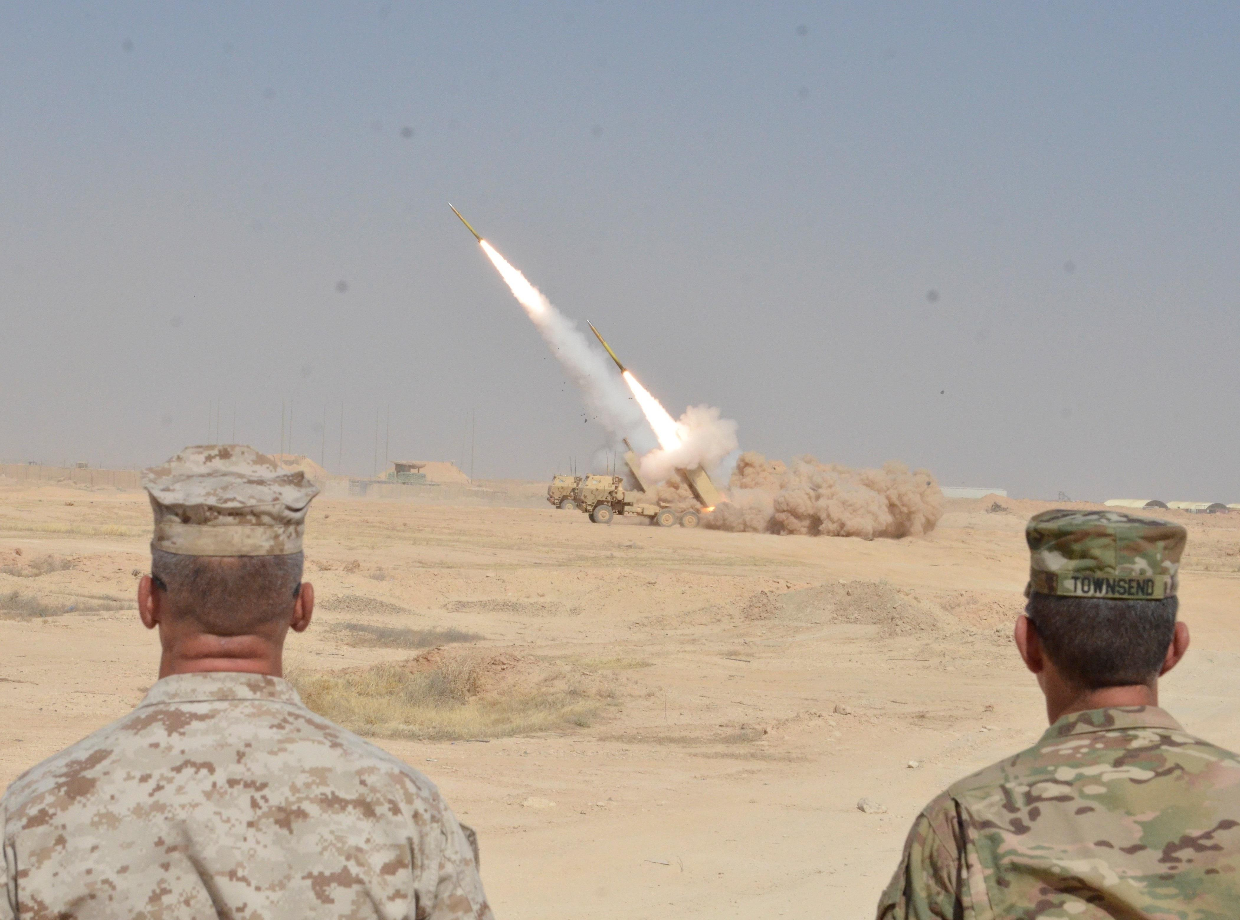 Al Asad Air Base - Lt. Gen Stephen J. Townsend, commander of Combined Joint Task Force – Operation Inherent Resolve, and Col. Paul Nugent, commander of Task Force Al Asad, observe a High Mobility Artillery Rocket System strike that destroyed a building housing Da’esh (an Arabic acronym for ISIL) fighters near Haditha, Iraq, Sept. 7, 2016. Combined Joint Task Force-Operation Inherent Resolve is a multinational effort to weaken and destroy Islamic State in Iraq and the Levant operations in the Middle East region and around the world.